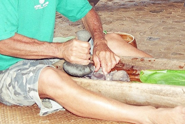 Making Poi in traditional way, Western Oahu near Makua Valley, 2002